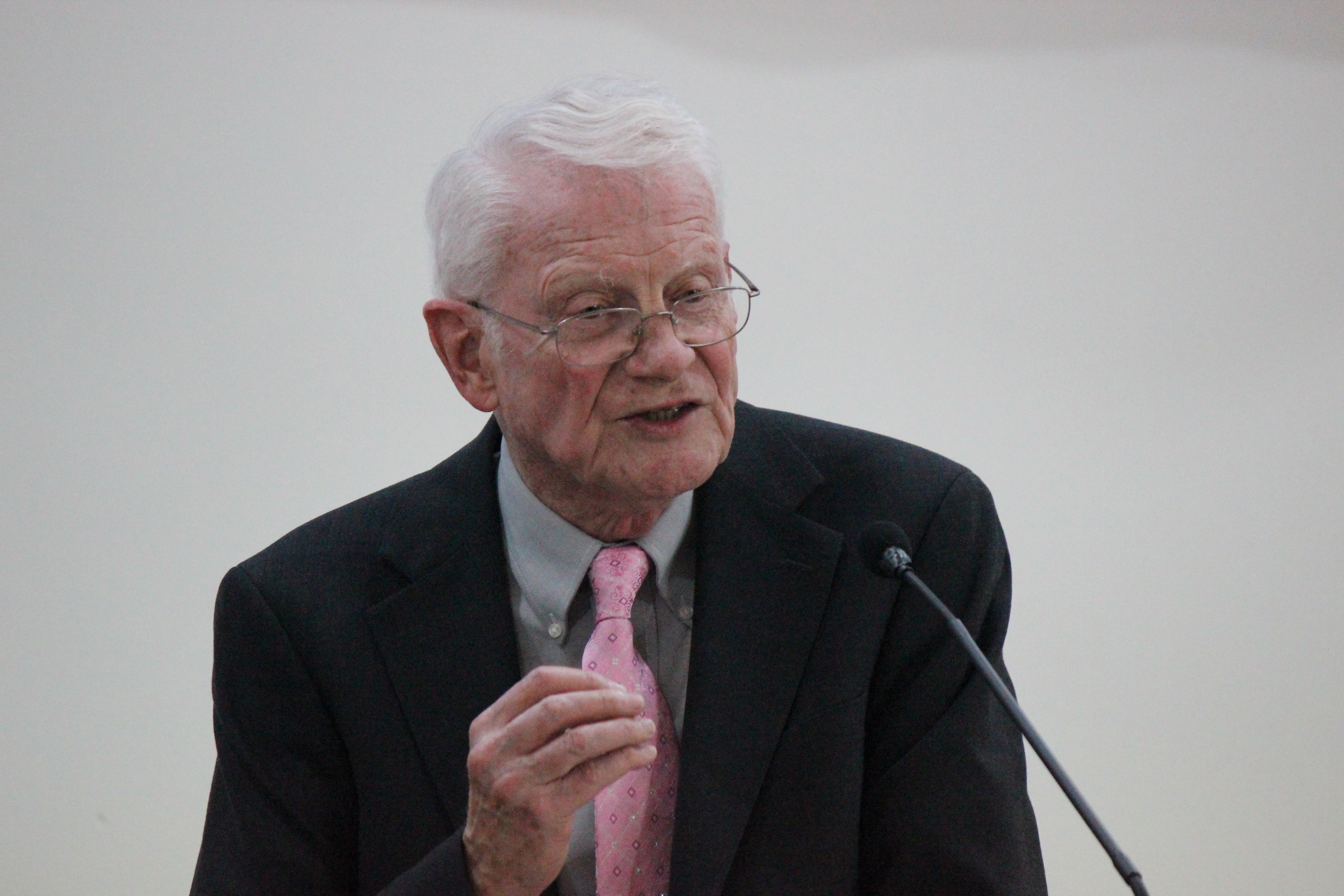 Richard B. Gaffin Jr speaking in Hapdong Theological Seminary in 18 May 2017